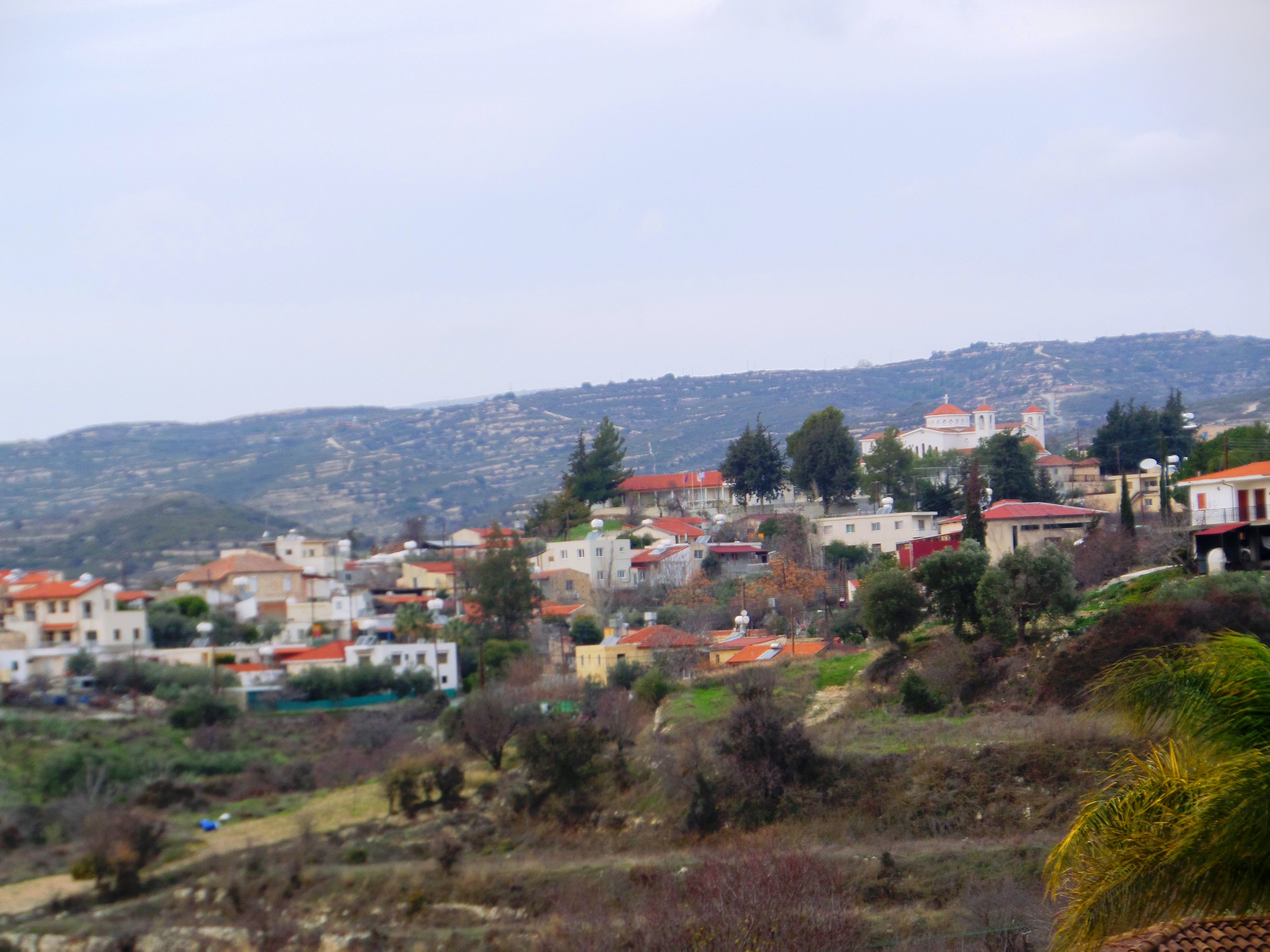 View of Agios Amvrosios, Limassol.